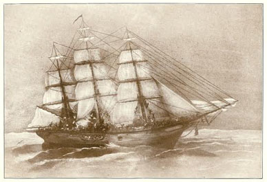 Clipper ship 'New 'Era, after a sketch made on the morning of the wreck, image taken from "The Wreck of the Ship "New Era" upon the New Jersey Coast, November 13, 1854", by Julius Friedrich Sachse, published 1907